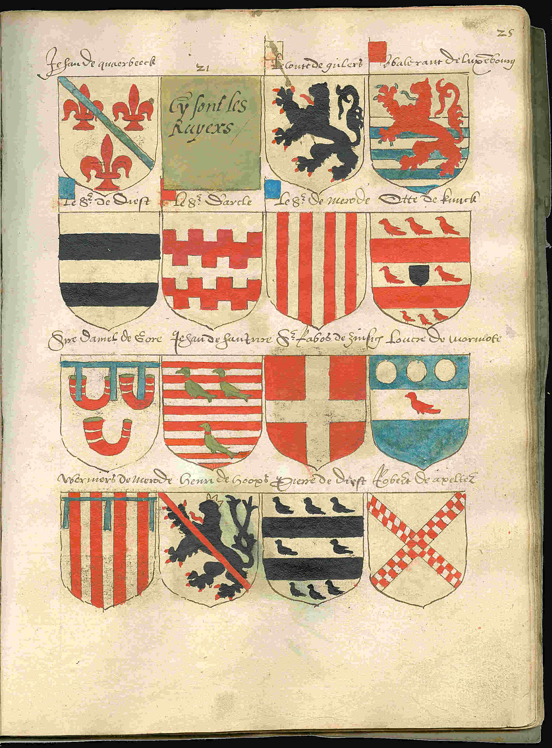 Page 25 from a copy of the Beyeren armorial / Wapenboek Beyeren from ca. 1600. The original Beyeren armorial from 1405 can be viewed at the website of the KB